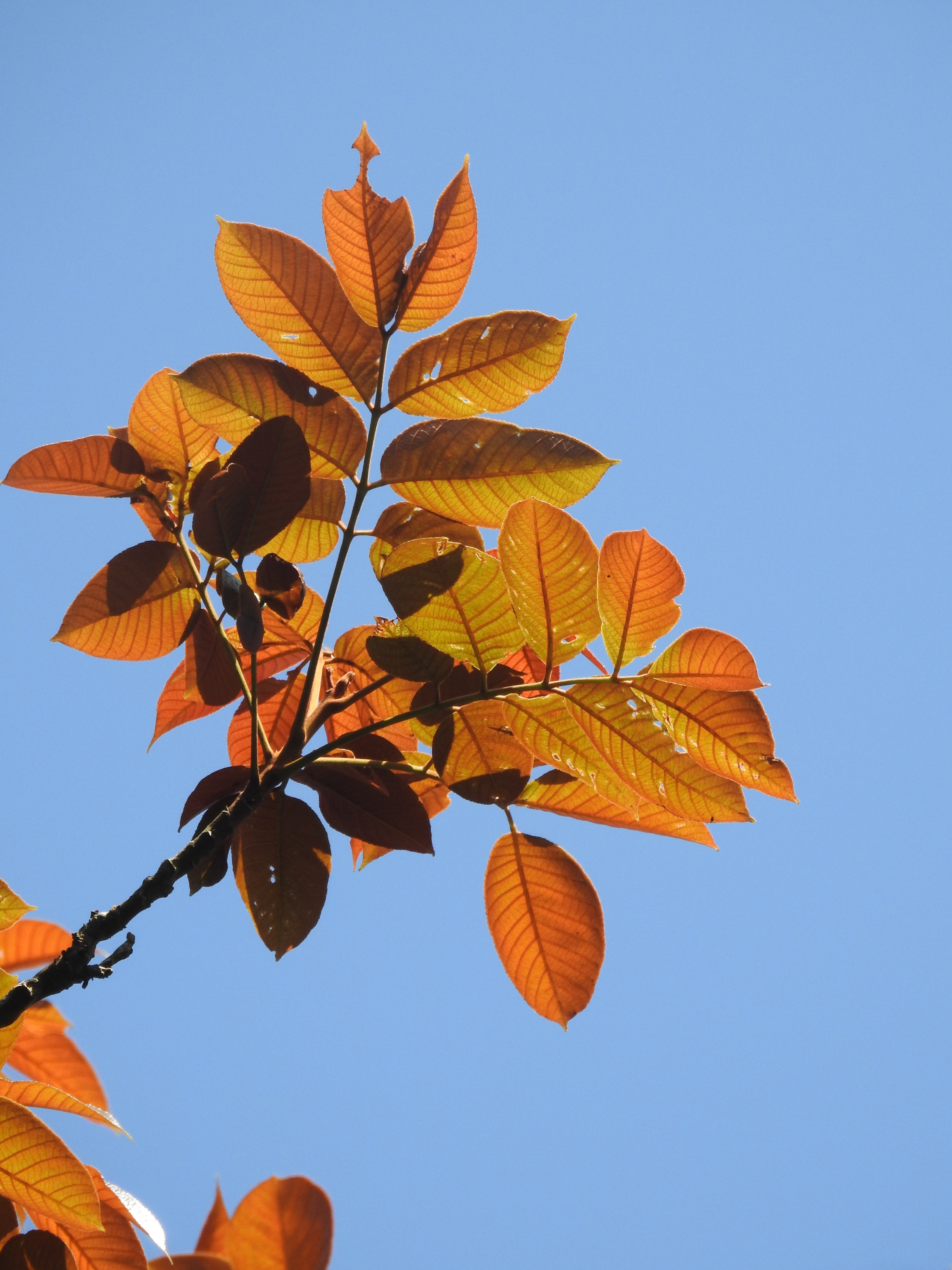 Canarium strictum photographed in Valparai